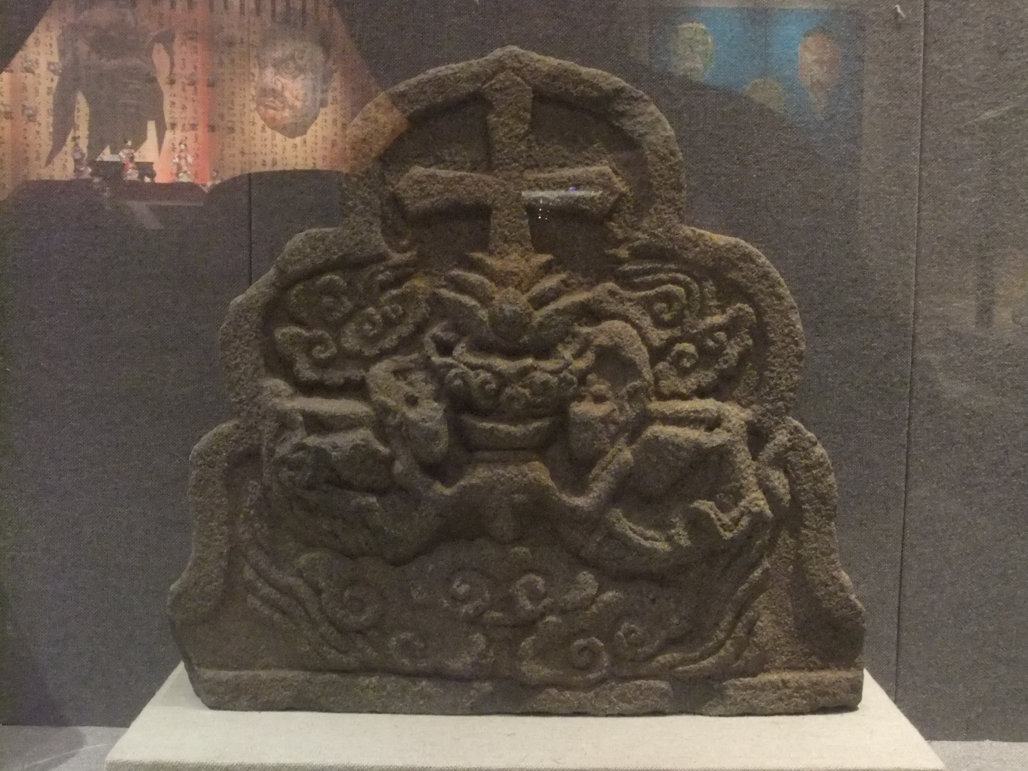 Nestorian stone carving. Yuan Dynasty.